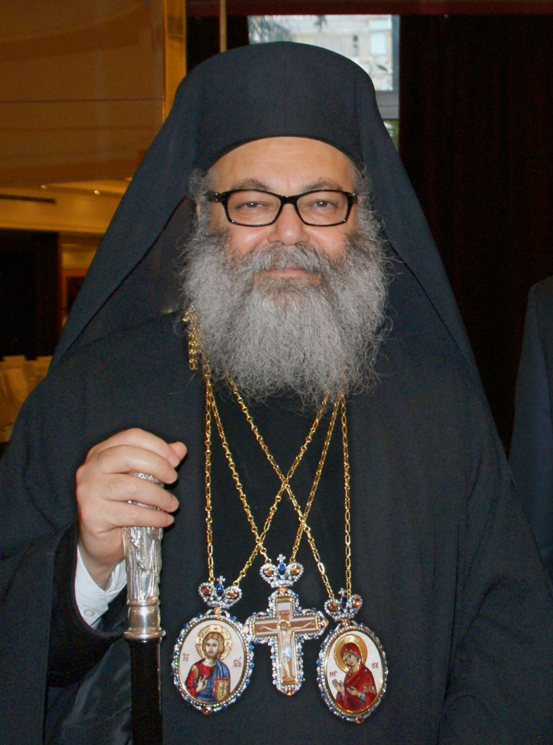 Patriarch John X of Antioch..